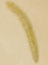 Stainton’s Natural History of the Tineina (1855–1873): Caloptilia stigmatella